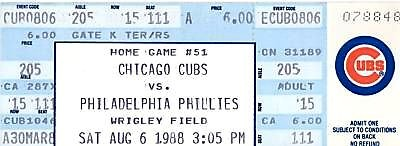 A ticket for an August 6, 1988 Major League Baseball game featuring the Philadelphia Phillies versus the Chicago Cubs at Wrigley Field. Cubs pitcher Goose Gossage collected this 300th career save in this game, becoming only the second pitcher in Major League Baseball history then with 300 saves.